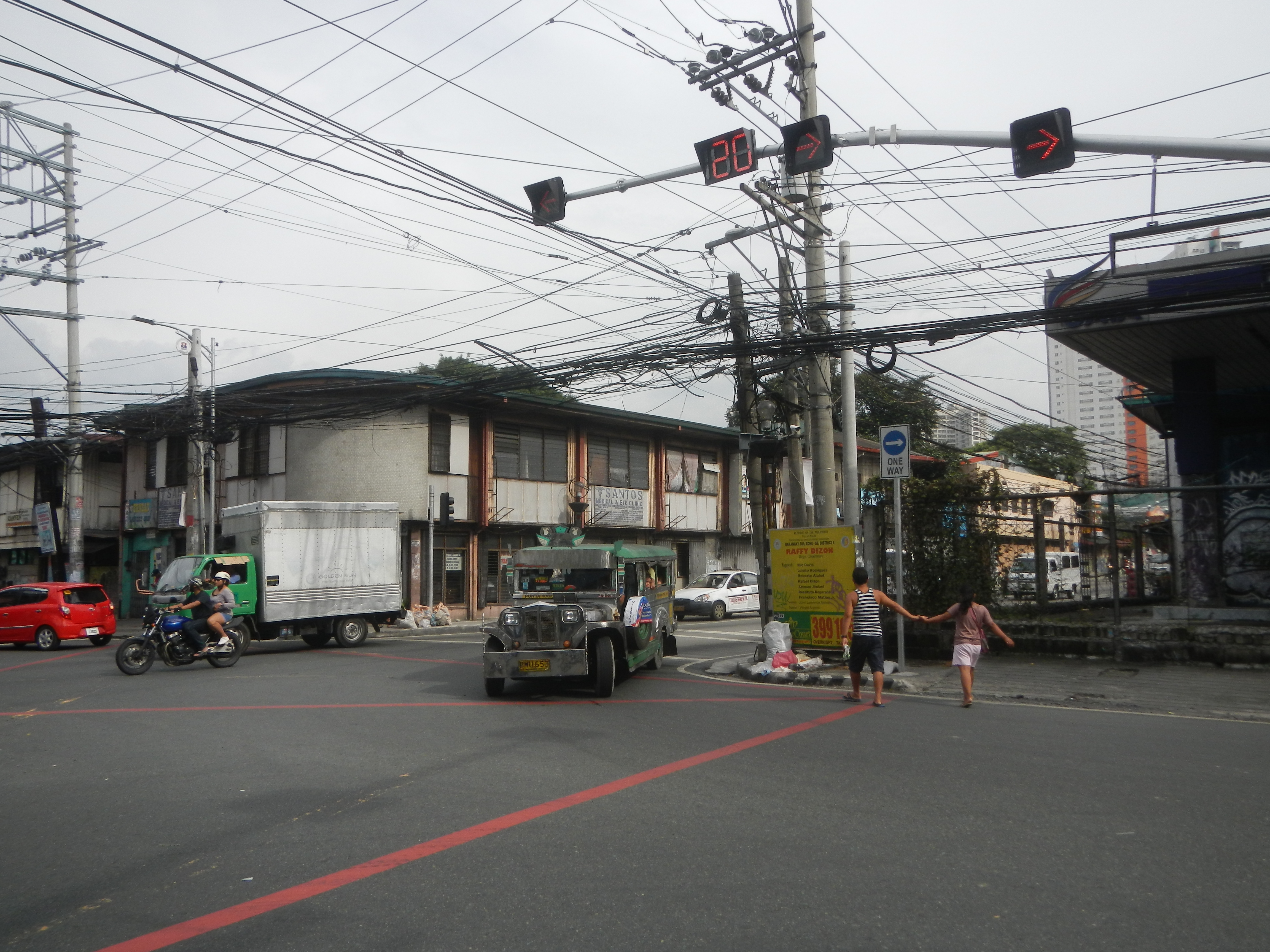 Victorino Mapa Street 14°35'57"N 121°1'1"E corner Magsaysay Boulevard corners Pag-Asa, Masikap and Pagkakaisa Streets into Old Santa Mesa Street 14°35'59"N 121°0'59"E interconnecting with N. Domingo Street in the List of barangays of Metro Manila Barangays 588, 589, Zone 58, 597, 598, 599, Zone 59, District VI, Santa Mesa has 49 barangays (Barangays 587-636) (Note: Judge Florentino Floro, the owner, to repeat, Donor Florentino Floro of all these photos hereby donate gratuitously, freely and unconditionally all these photos to and for Wikimedia Commons, exclusively, for public use of the public domain, and again without any condition whatsoever).